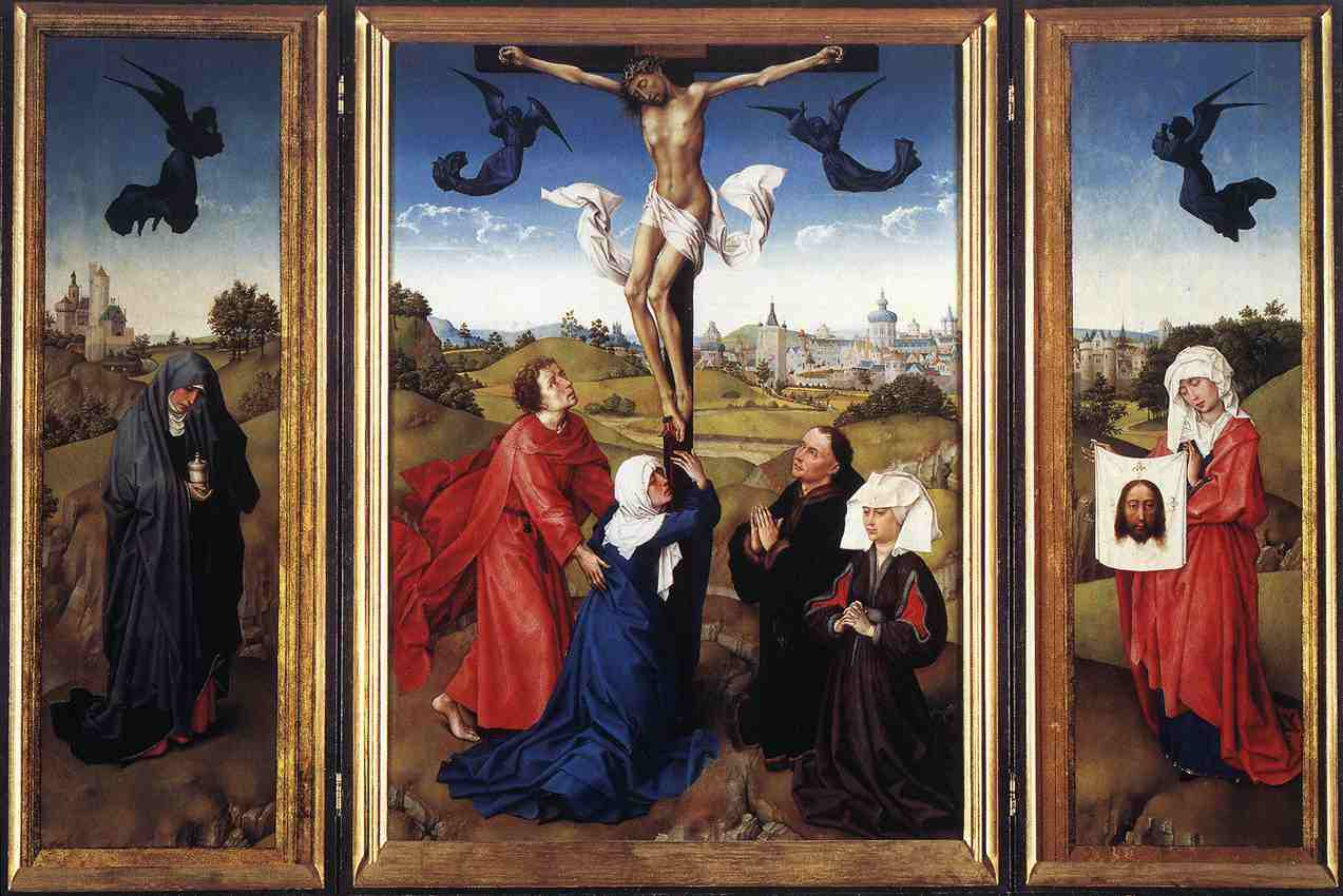 Crucifixion Triptych Oil on oak panel, 101 x 70 cm (central panel), 101 x 35 cm (each wing) Kunsthistorisches Museum, Vienna